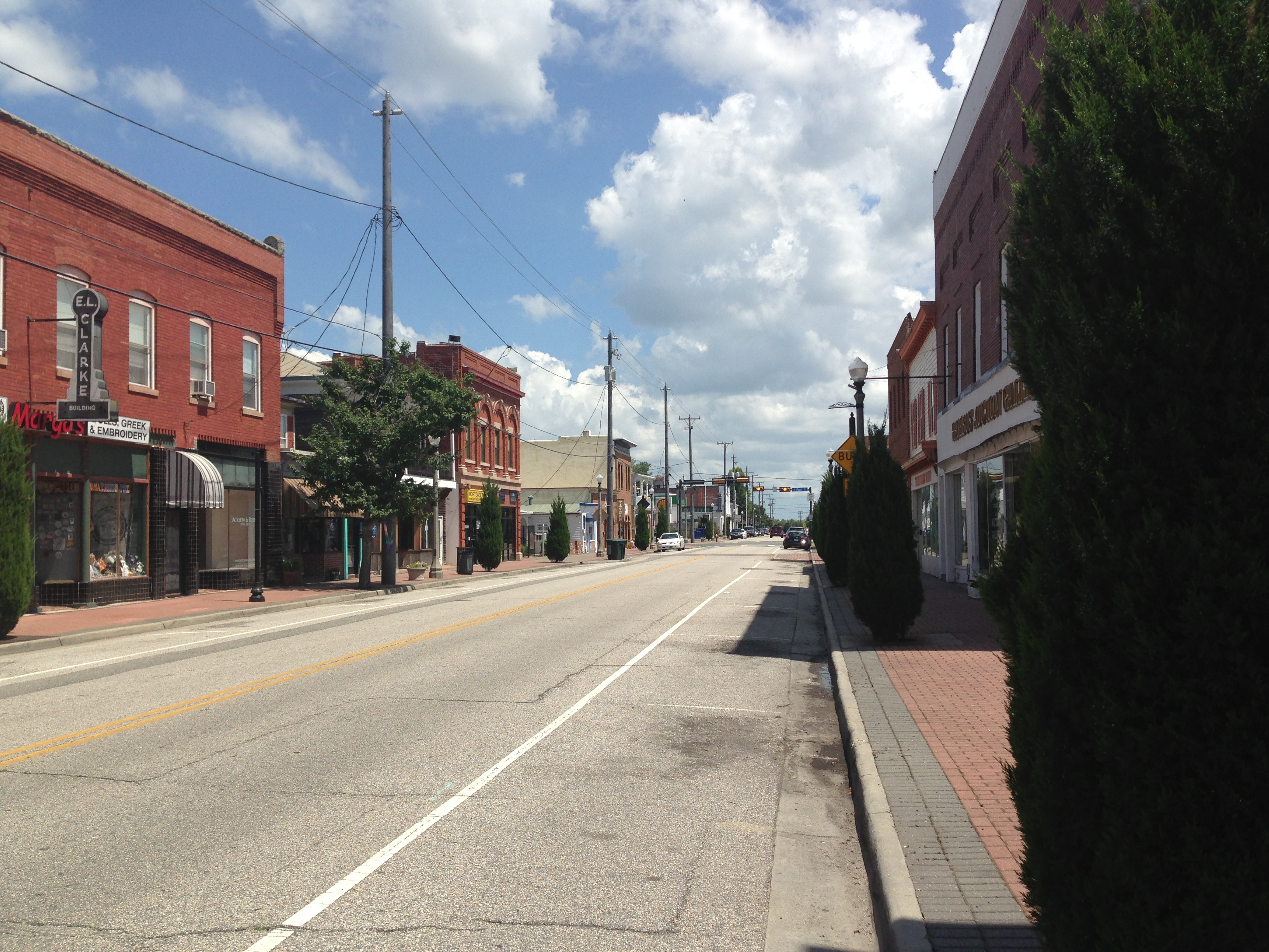 The Phoebus neighborhood of Hampton Virginia, viewed from East Mellen St